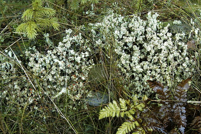 Picture taken in Commanster, Belgian High Ardennes . Species: Stereocaulon alpinum